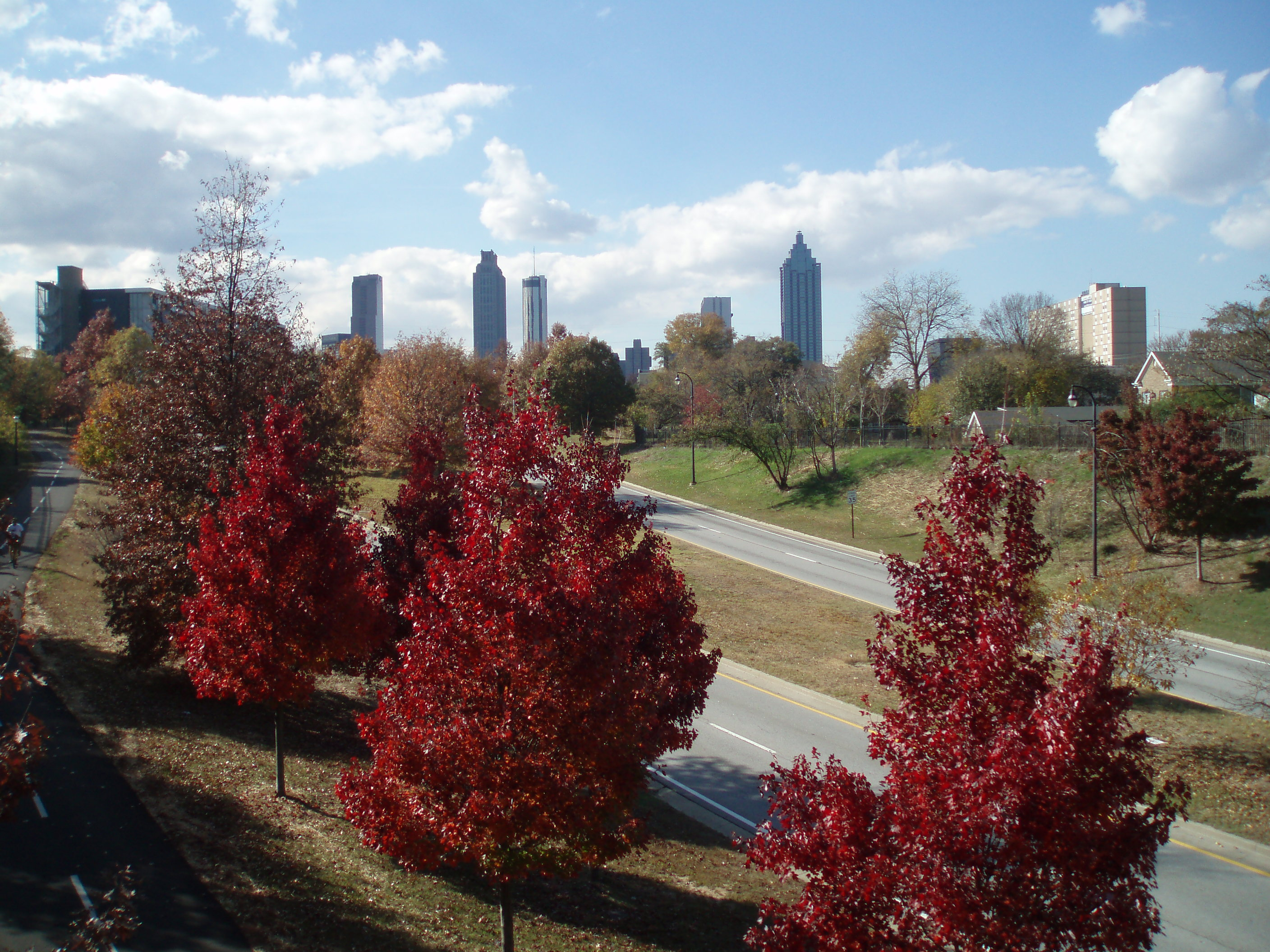 Freedom Parkway, Atlanta, Georgia (November 21, 2010)